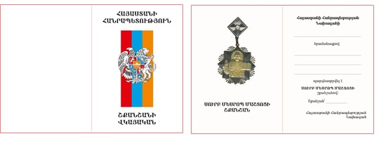 St. Mesrop Mashtots Order certificate